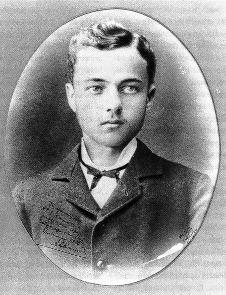 Greek composer Spyros Samaras / Σπύρος Σαμάρας (1861-1917)